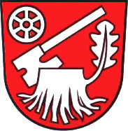 Coat of arms of Berlingerode